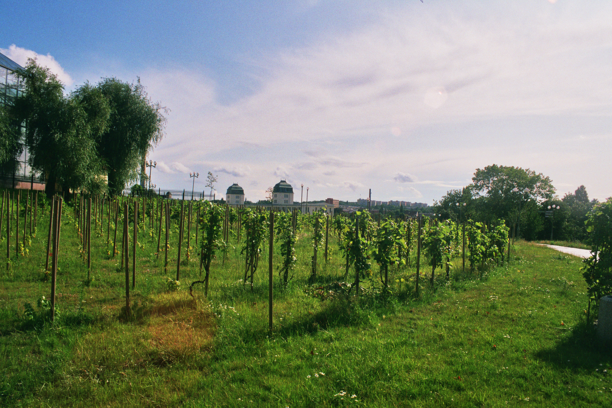 vine garden in Zielona Góra